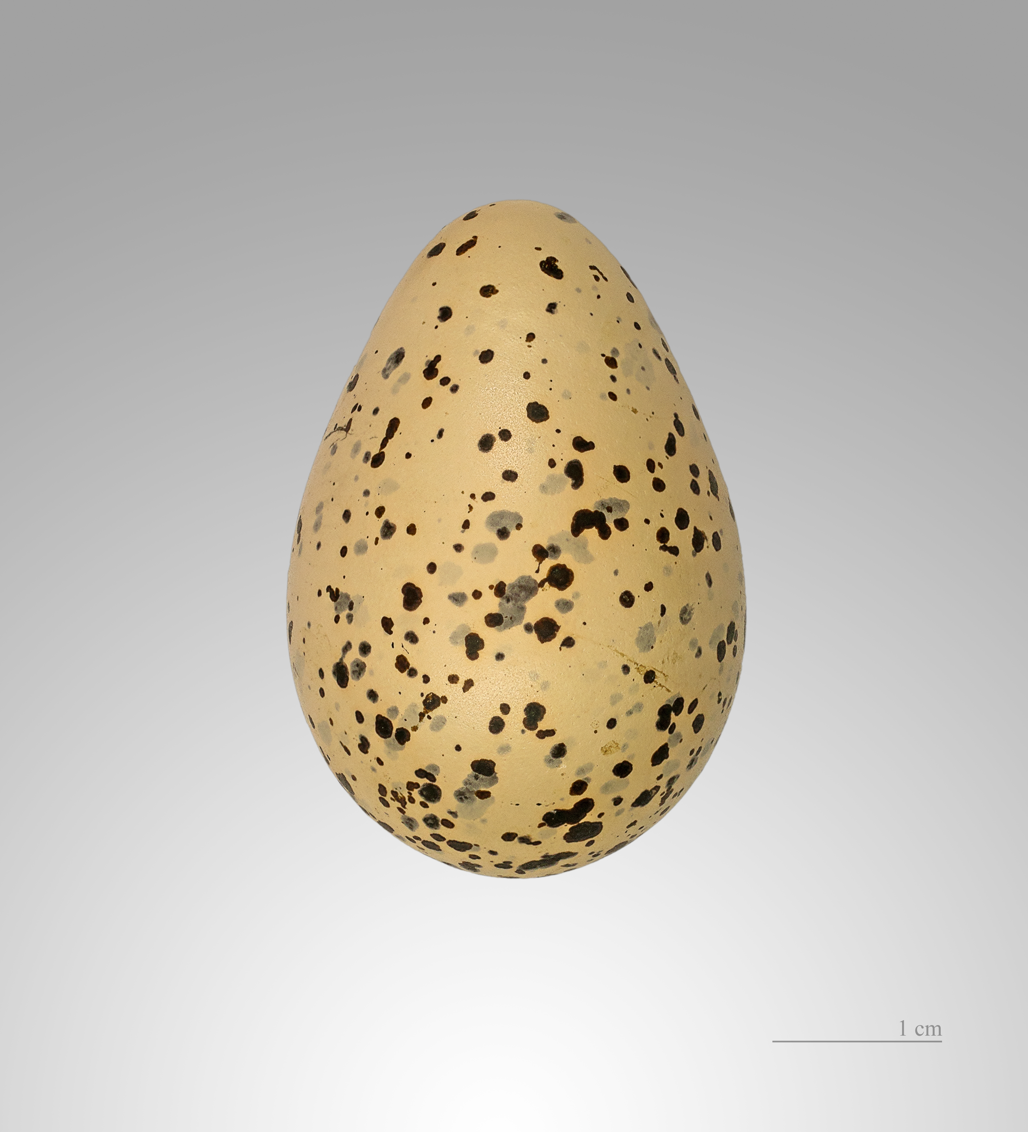 Egg of Common Ringed Plover. Collection of Jacques Perrin de Brichambaut.